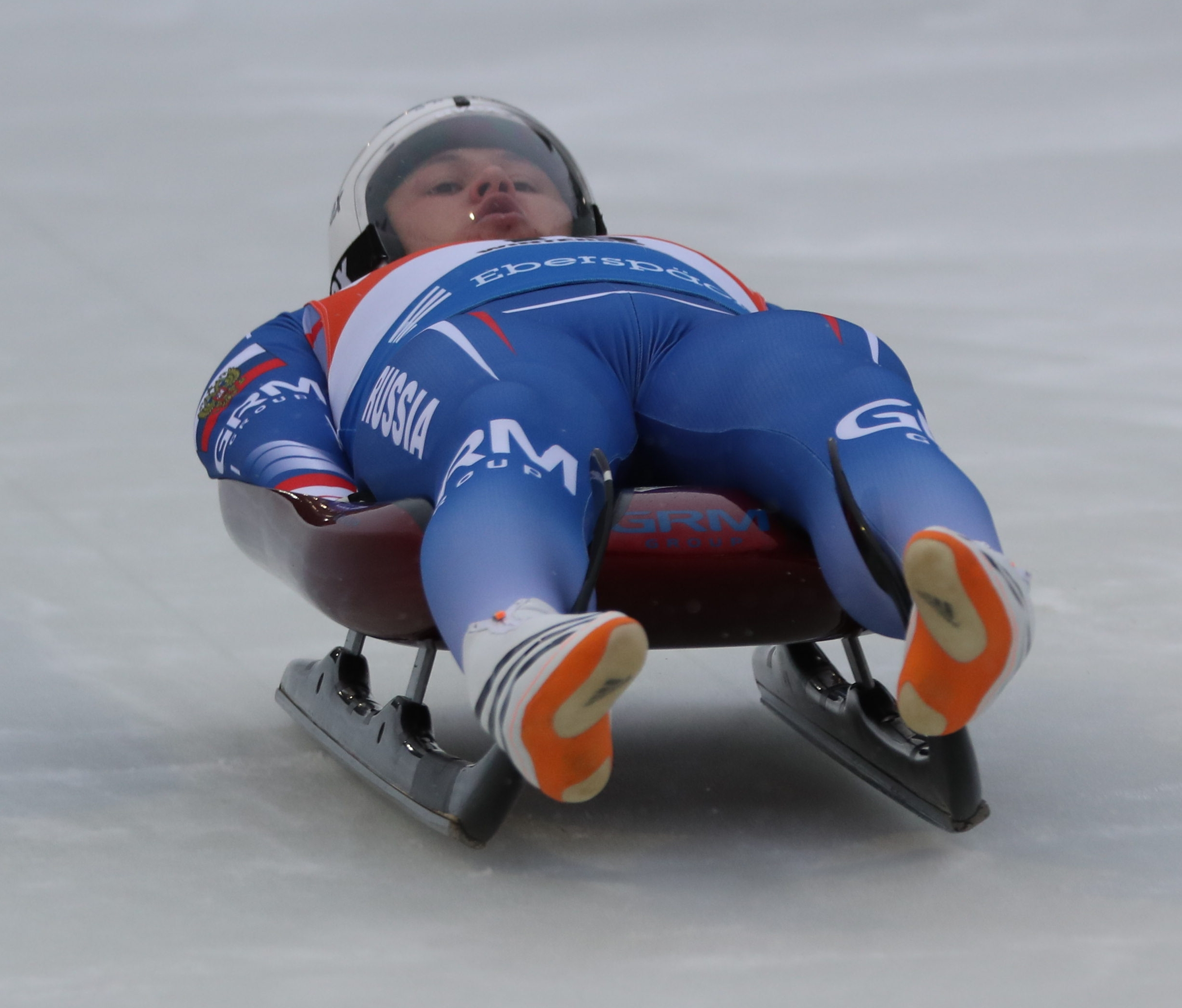 Luge World Cup Men in Winterberg